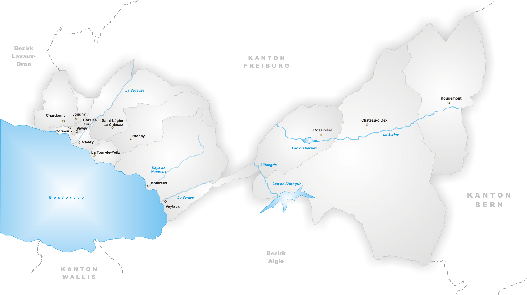 Municipalities of District Riviera - Pays-d'Enhaut from 2008